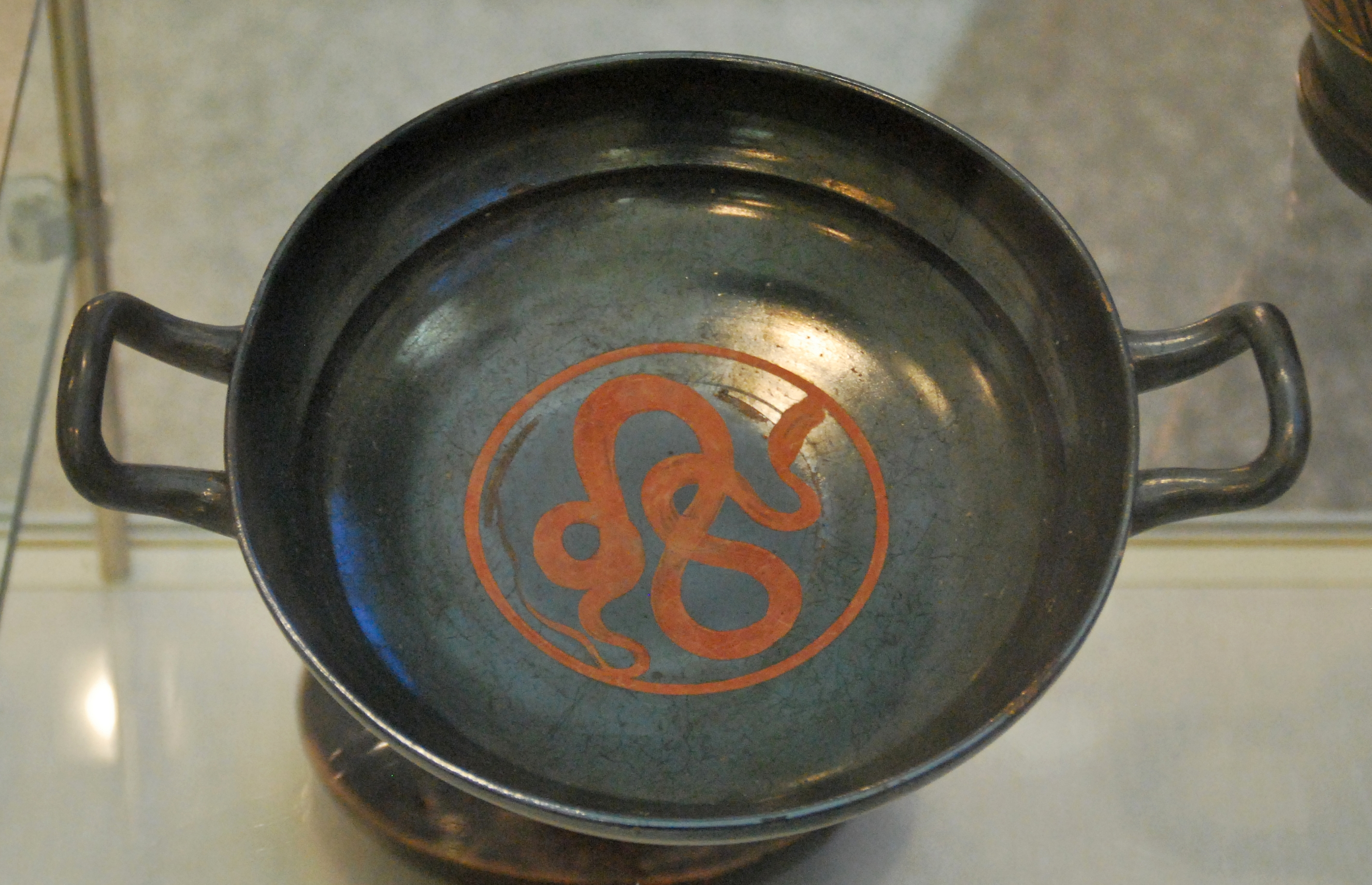 Kylix by the Group of the Red Swan, depicting a snake. 2nd half of 4th century BC. Antikensammlung Kiel, Inventory B 762.